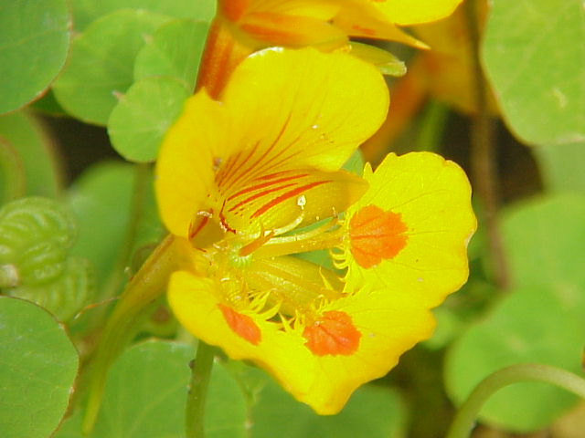 Species: Tropaeolum minus Family: Tropaeolaceae Image No. 3